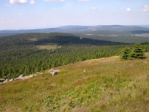 View to Königsberg from Brocken in the Harz mountain range, Germany